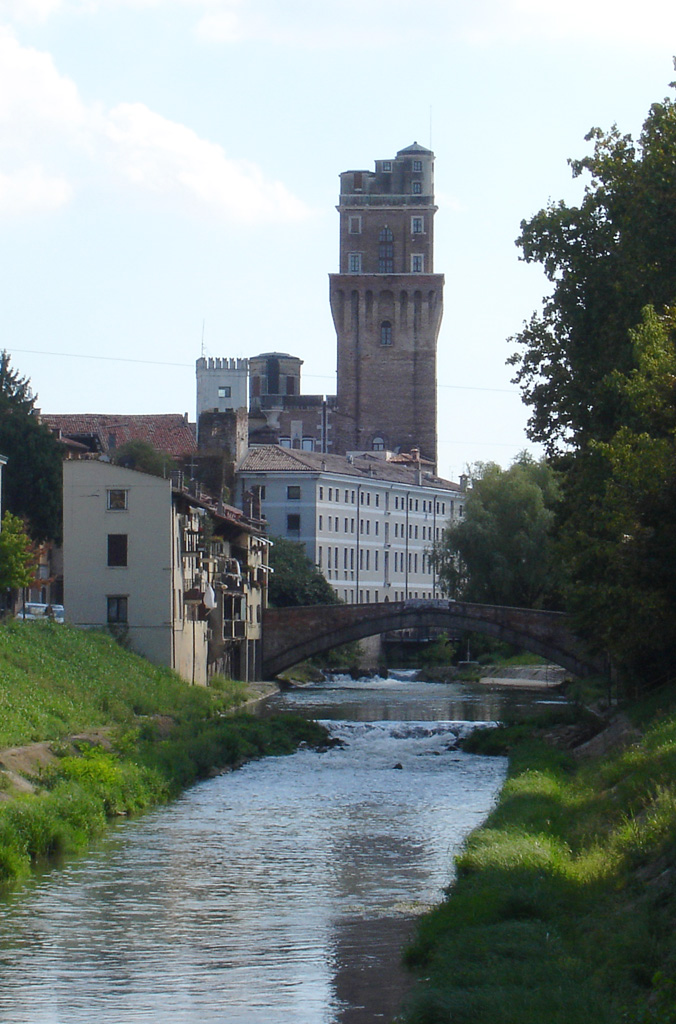 Astronomic Observatory La Specola, Padova, Italy.